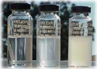 Photo of three glass vials shows turbidity standards of 5, 50, and 500 NTUs